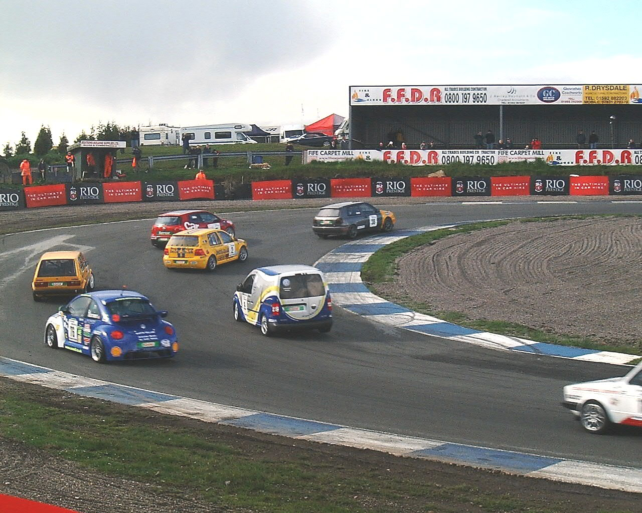 Taylors corner at the Knockhill circuit.